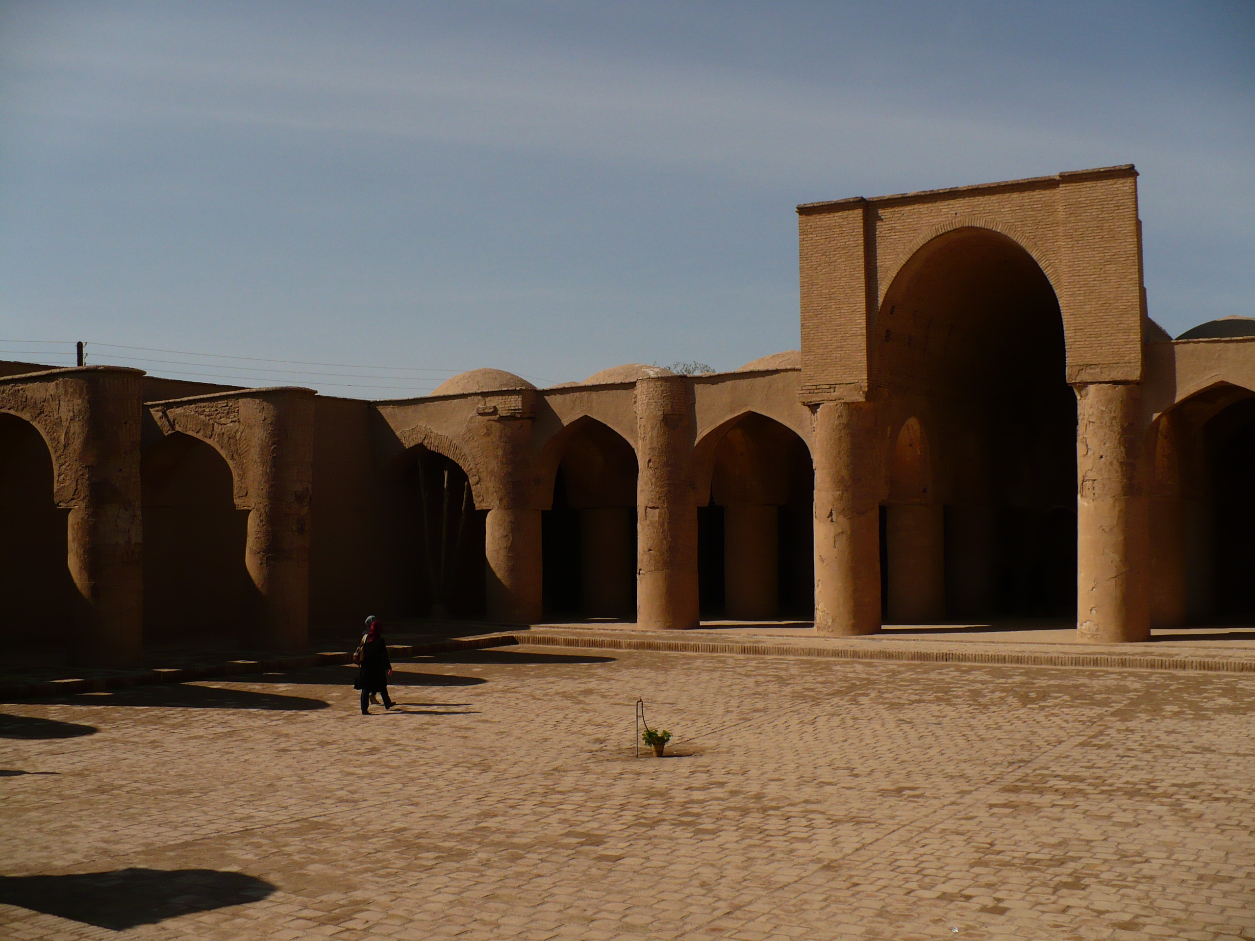 Tarikhaneh mosque in Damghan, the probably oldest mosq in Iran.